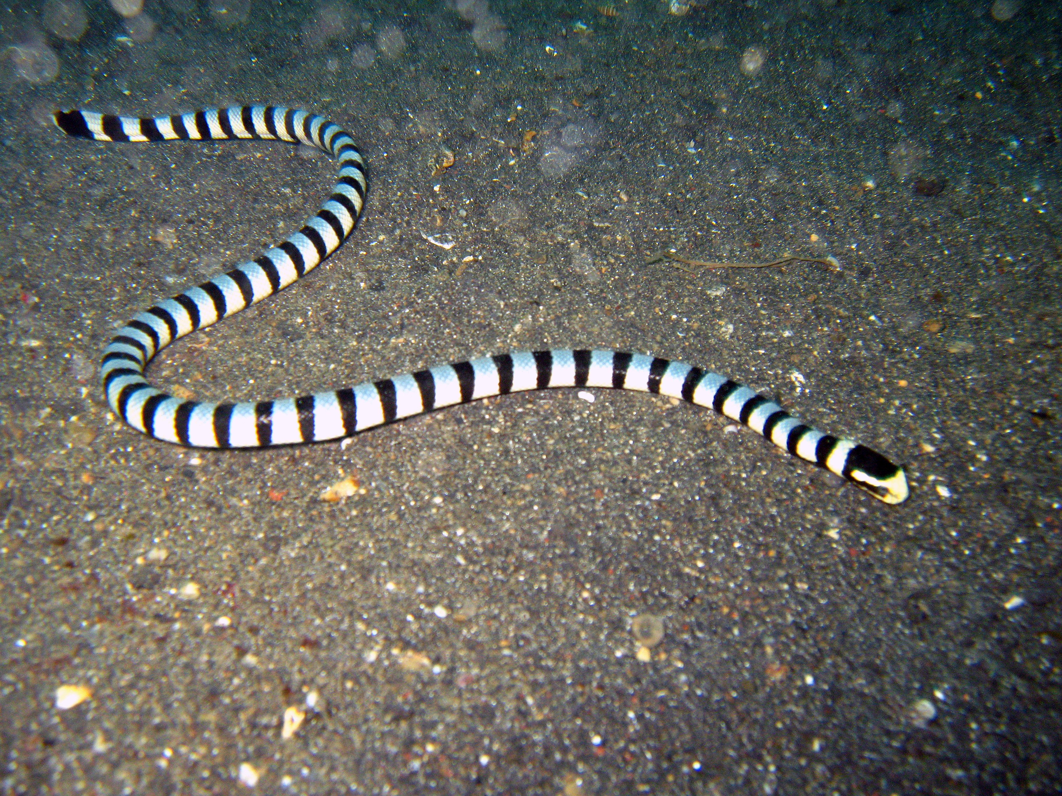 Image of a banded sea krait, Laticauda colubrina. Taken at Lembeh Straits, North Sulawesi, Indonesia